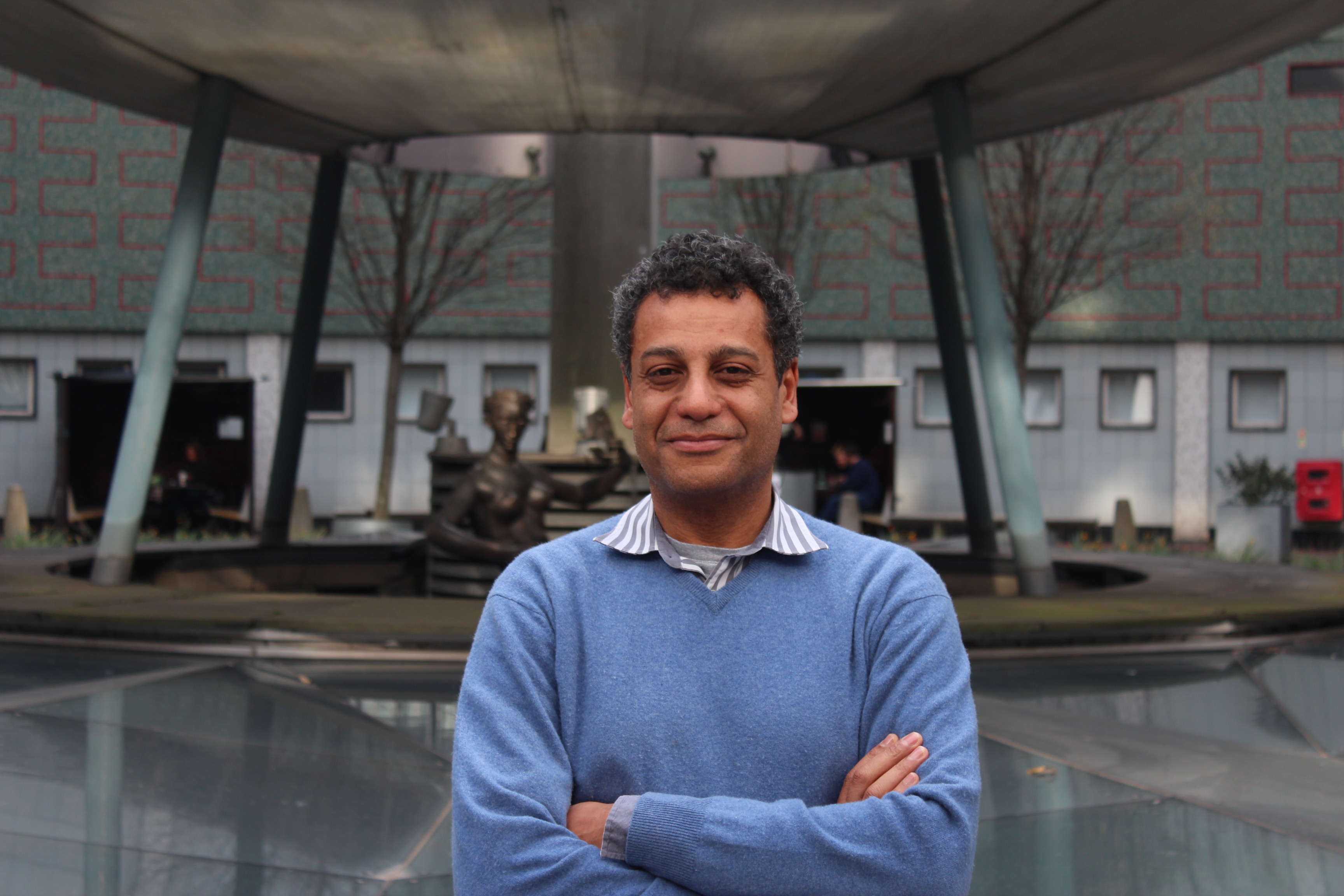 Tony Ageh in BBC Television Centre, London